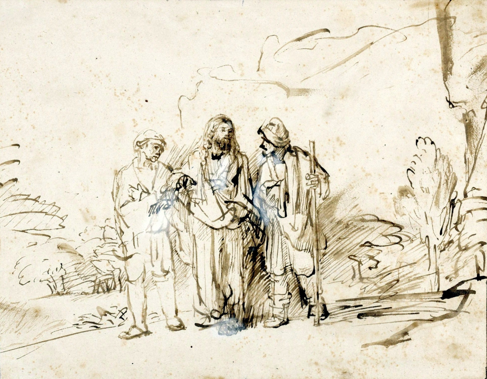 Pen and brush in brown ink, washed, heightened with white, on paper